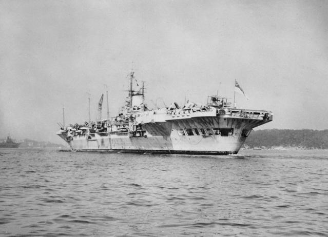 SYDNEY, N.S.W., AUSTRALIA. 1945-02-10/11. THE ROYAL NAVY AIRCRAFT CARRIER HMS VICTORIOUS ARRIVING WITH UNITS OF THE BRITISH PACIFIC FLEET.